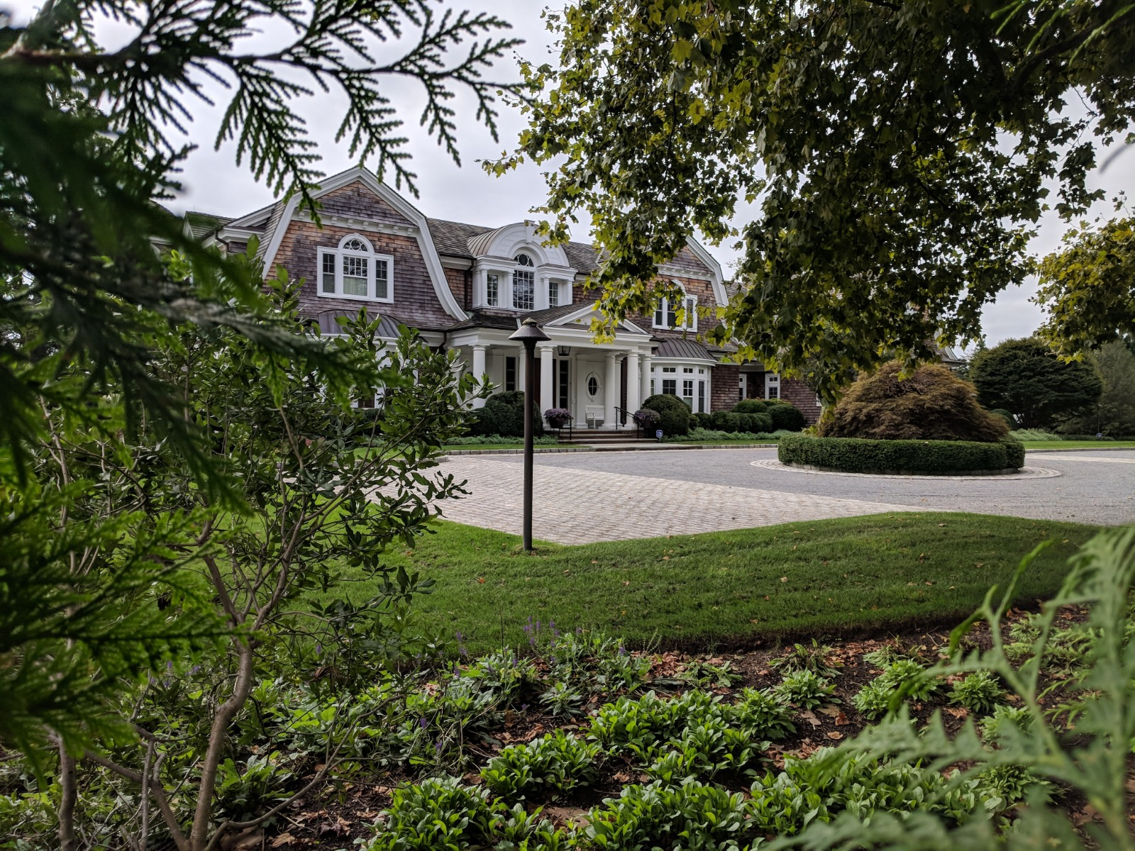 Part of the Hamptons, the summer resort town is close to the ocean and Dune rd is the barrier strip which has picturesque cottages next to mansions.